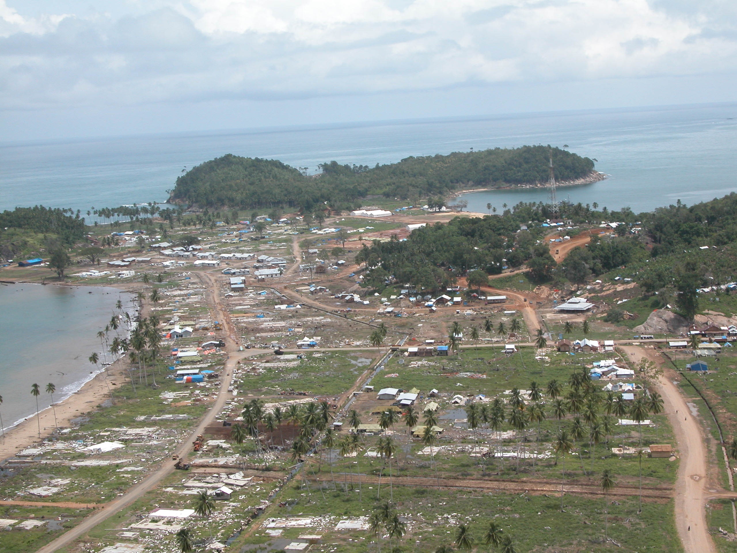 Calang, Aceh Jaya Regency.